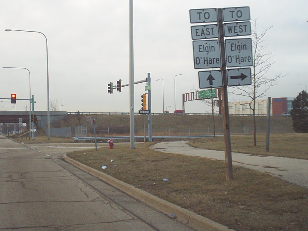 Shields for the Elgin O'Hare Expressway near Chicago (Wright Boulevard looking south-southwest, Schaumburg)